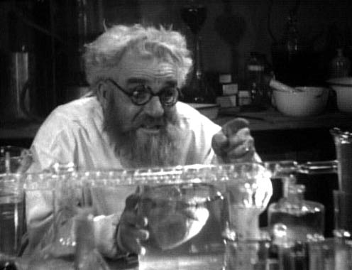 Screenshot from the public domain films Maniac (1934) showing Horace B. Carpenter as the character "Dr. Meirschultz"